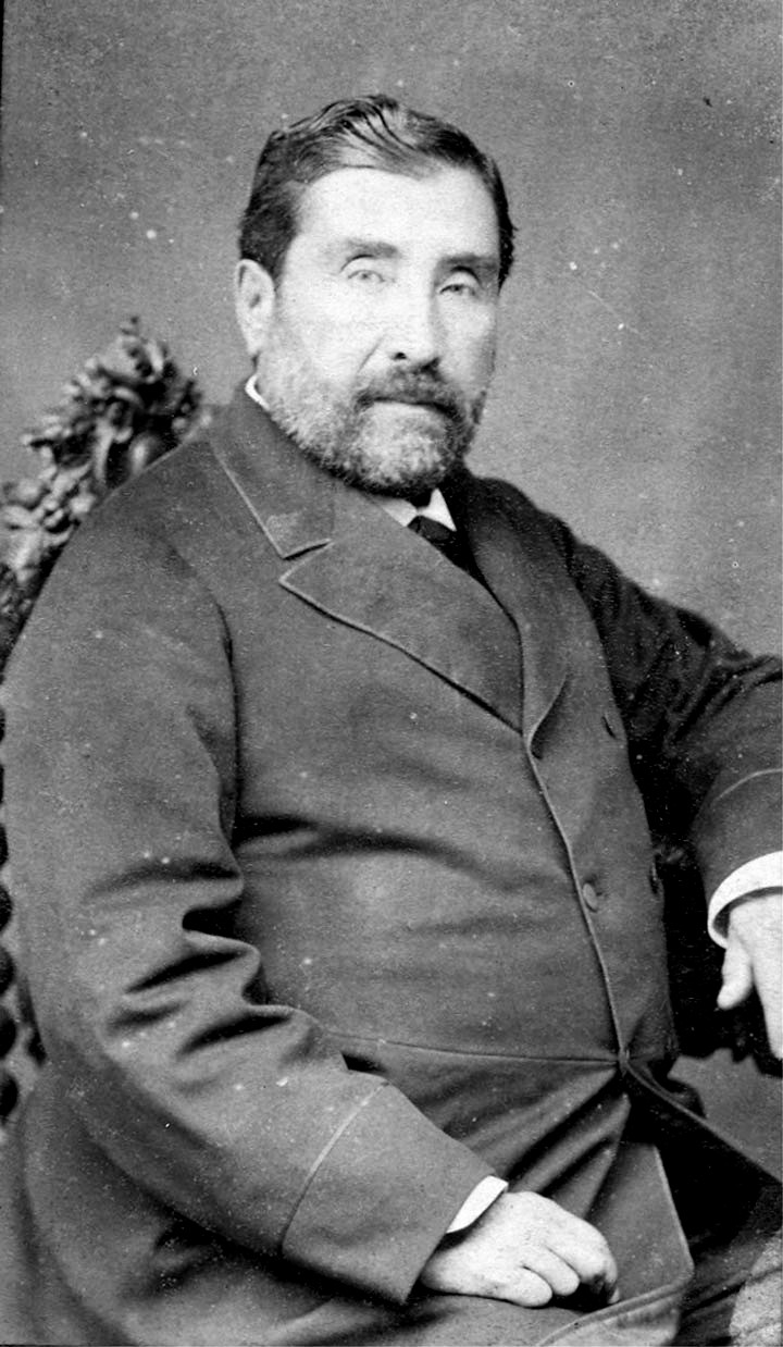 Photograph of José María Rojas Garrido, President of the United States of Colombia in 1886.